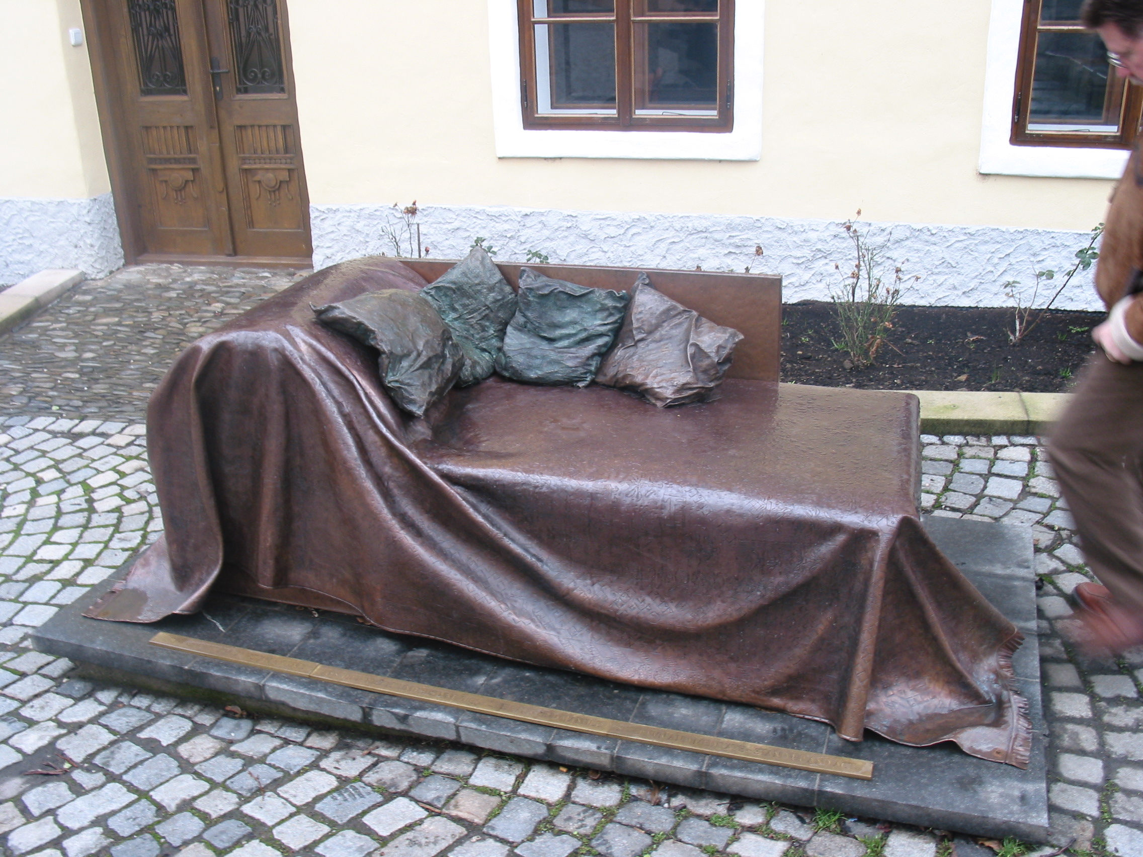 Sigmund Freud Museum at Příbor.